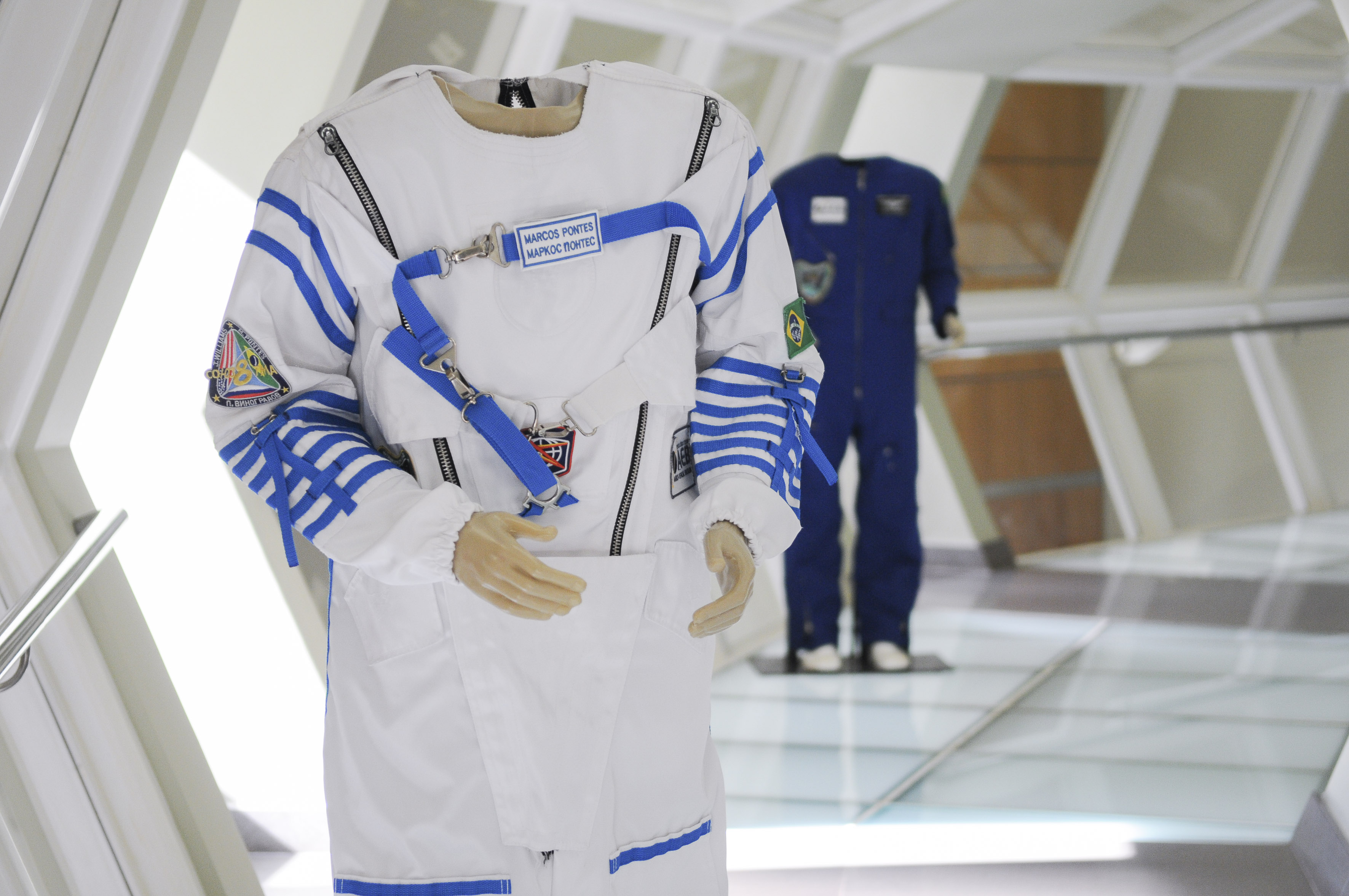 Planetário de Brasília, Brasília, DF, Brasil, 17/5/2015 Foto: Andre Borges/Agência Brasília Painéis fotográficos com imagens de galáxias, nebulosas planetárias e constelações estrelares podem ser vistos por tempo indeterminado no centro da cidade. Desde 6 de maio, o Planetário de Brasília recebe a exposição Universo Supreendente. Réplicas das roupas usadas pelo astronauta brasileiro Marcos Pontes e de modelos de espaçonaves também fazem parte do acervo.